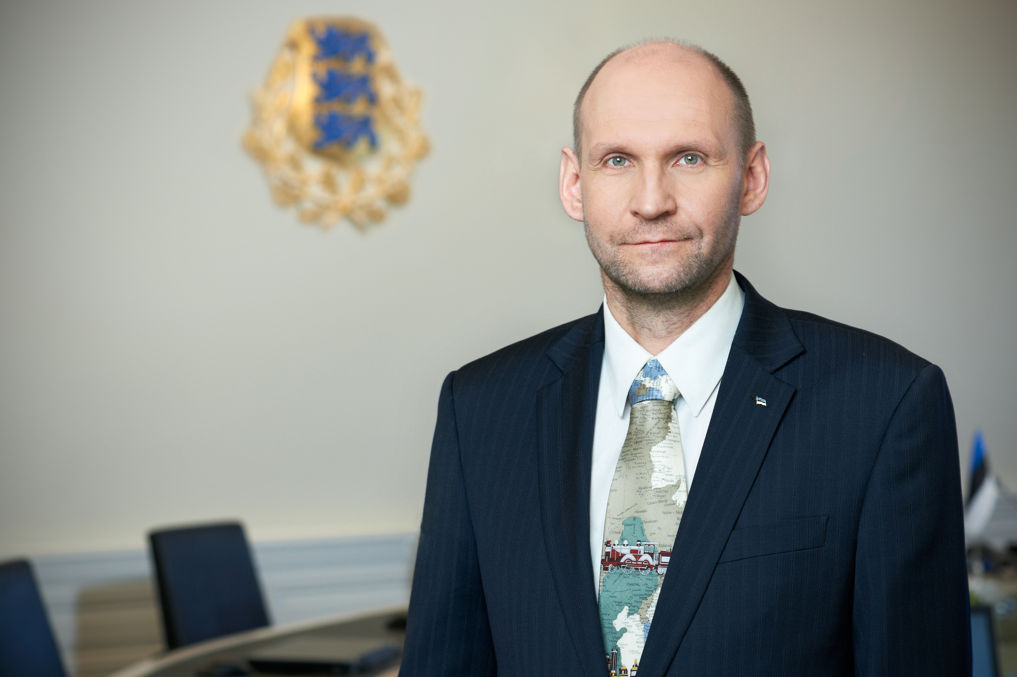 Helir-Valdor Seeder